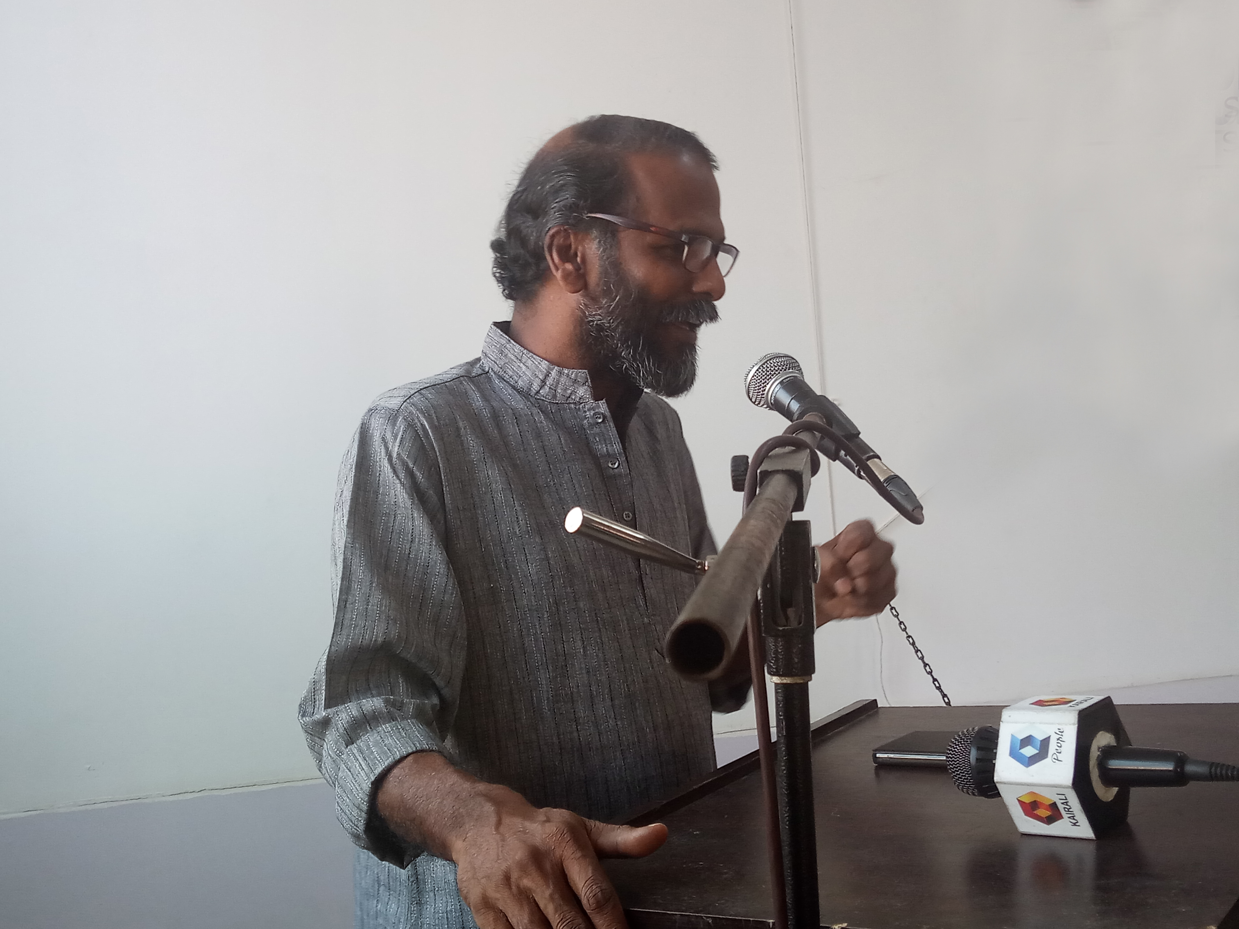 Sunil P. Ilayidom (സുനിൽ പി. ഇളയിടം) is an Indian writer and critic in the Malayalam language.